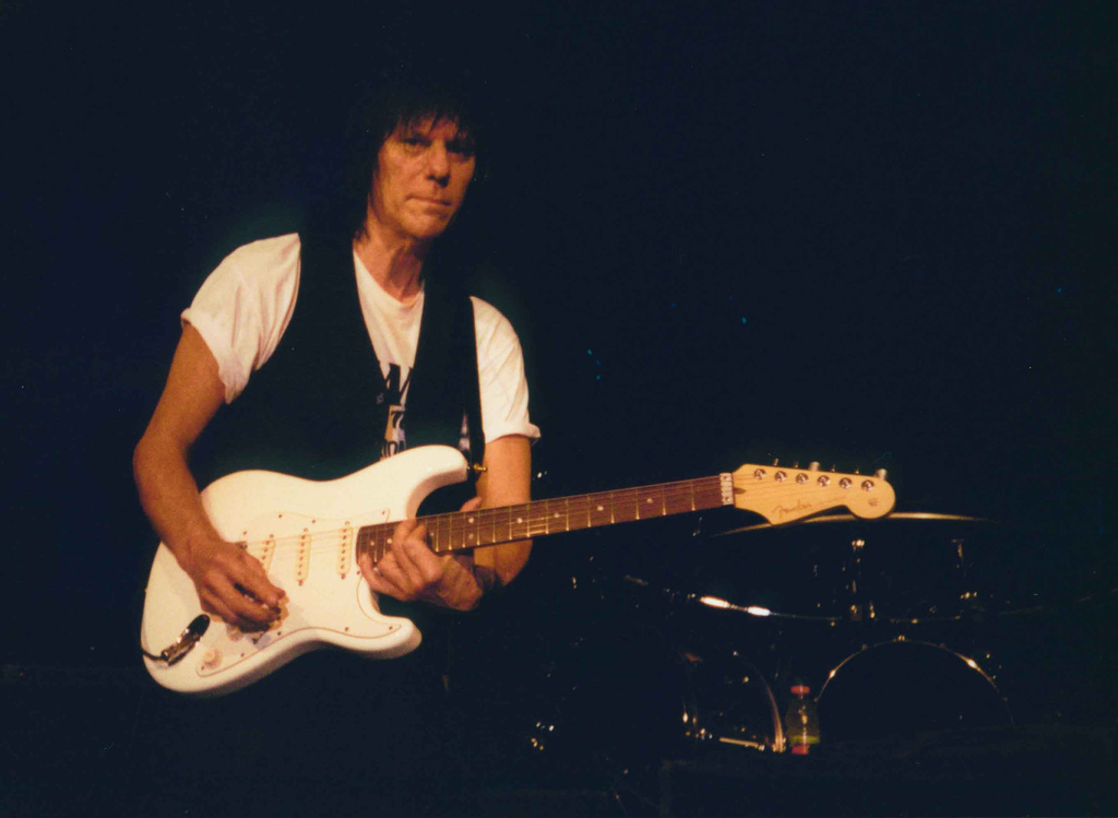 Jeff Beck Live Commodore Ballroom Vancouver, British Columbia Canada - Feb. 17, 2001 Roll 2_Frame 21 Ever seen a picture of Jeff looking into the camera while playing live?